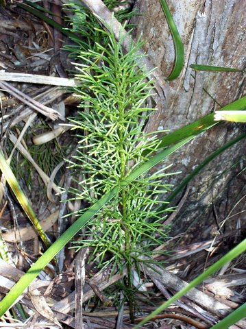 Lycopodium deuterodensum at Gloucester_Tops